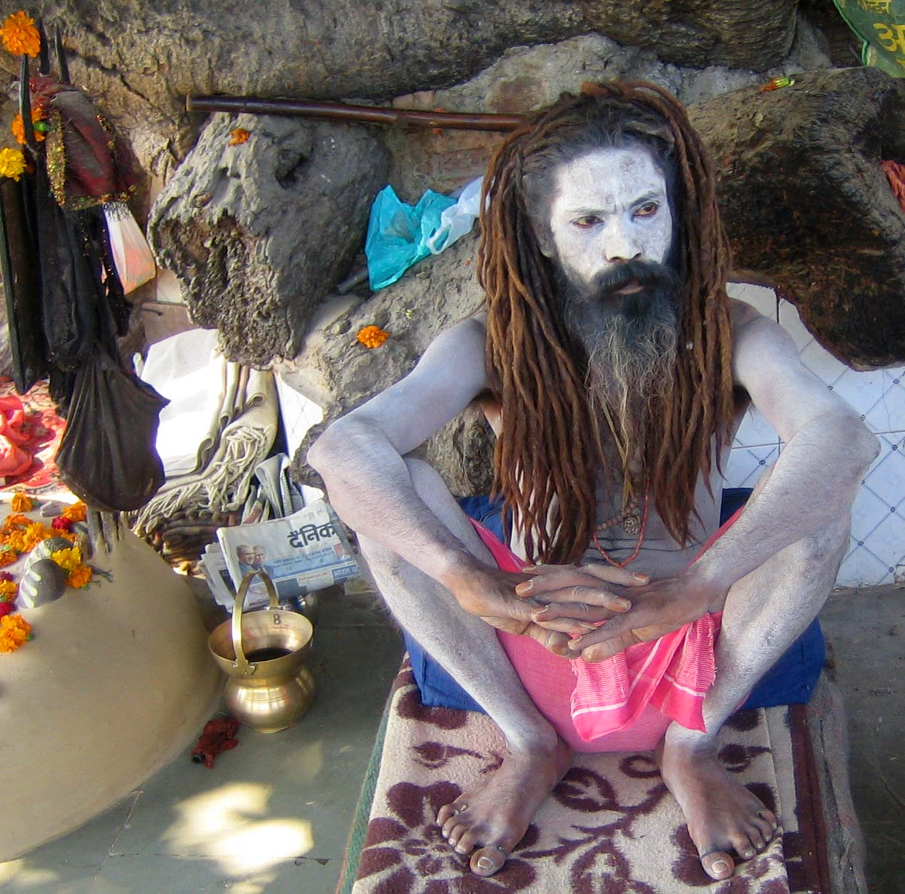 A sadhu relaxing on the bank of river Ganga.